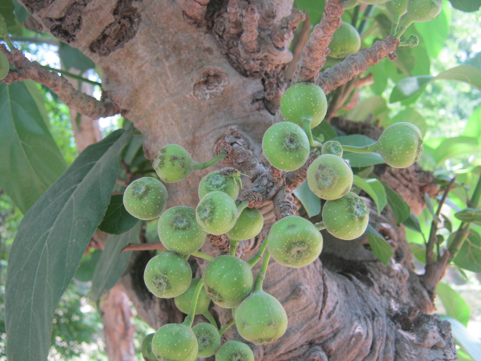 Ficus hispida fruits during May in Panchkhal Valley.